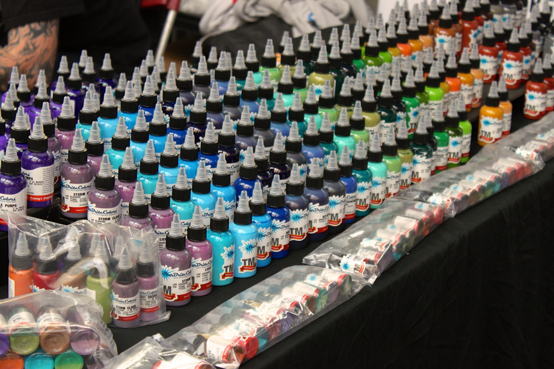 Ink at London Tattoo Convention 2013.